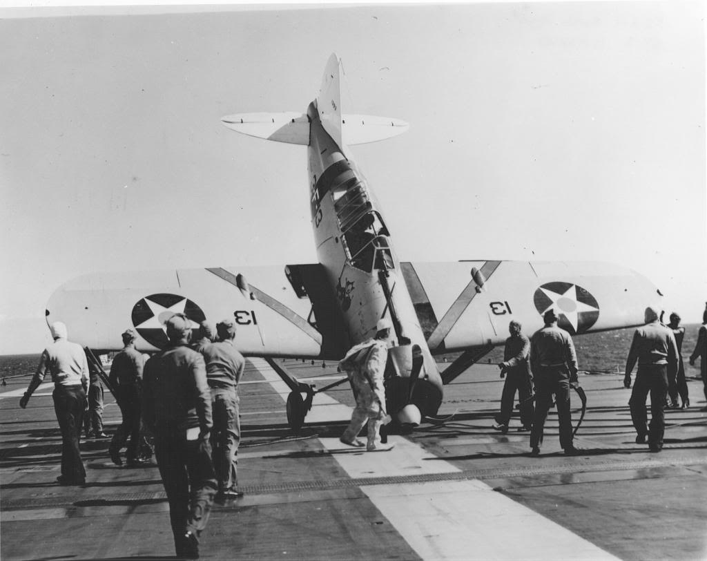 On 19 March 1940 U.S. Navy Lt. John Smith "Jimmy" Thach tipped this Brewster F2A-1 Buffalo (BuNo 1393) onto its nose on the flight deck of the circraft carrier USS Saratoga [CV-3) Ensign Edward Butch O'Hare also flew this aircraft several times during the summer and fall of 1940.